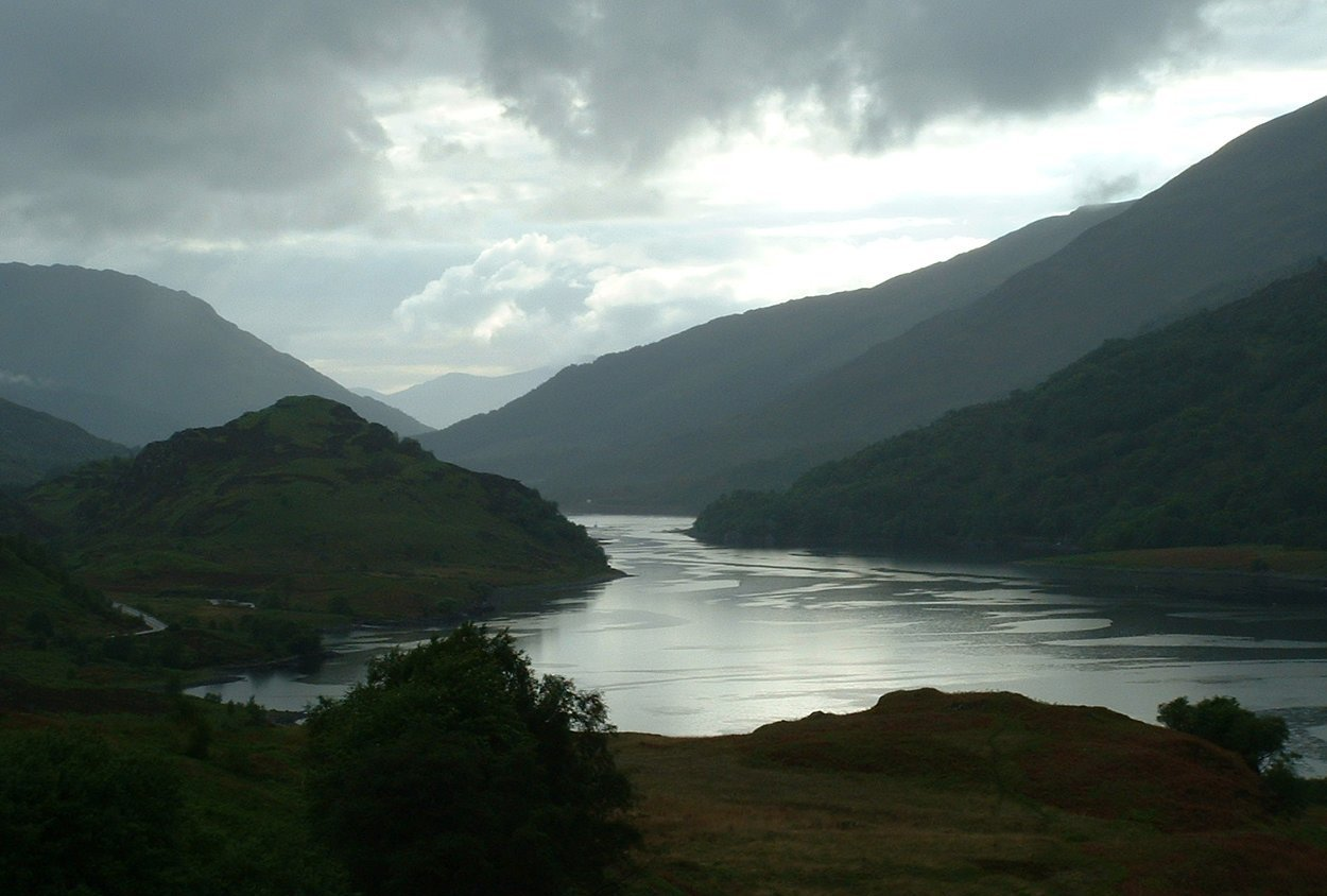 South side of Loch Leven, looking west. Photograph by Cactus.man, June 2005.